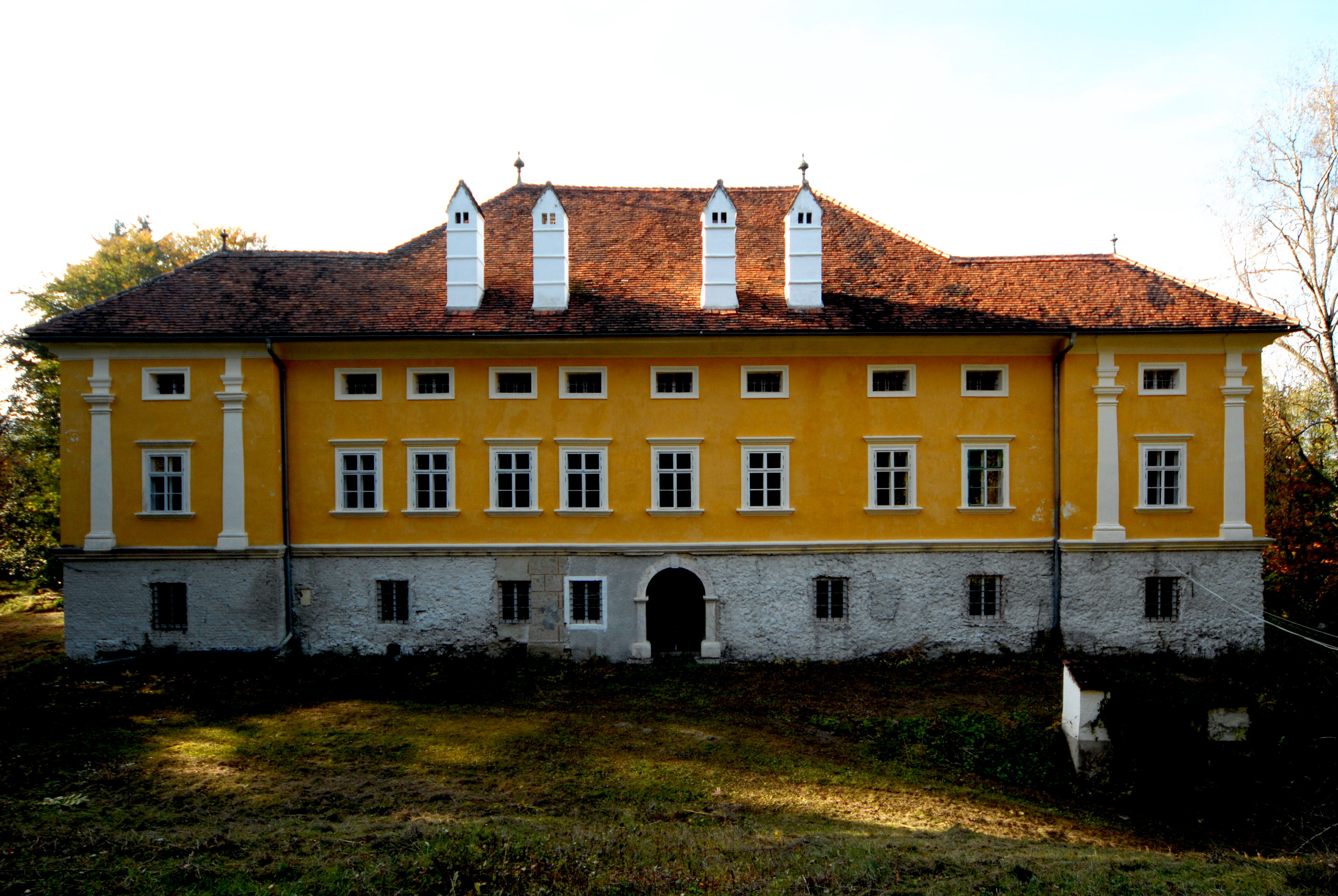 Castle Stadlhof in Pflügern, municipality Saint Veit an der Glan, district Sankt Veit, Carinthia, Austria, EU